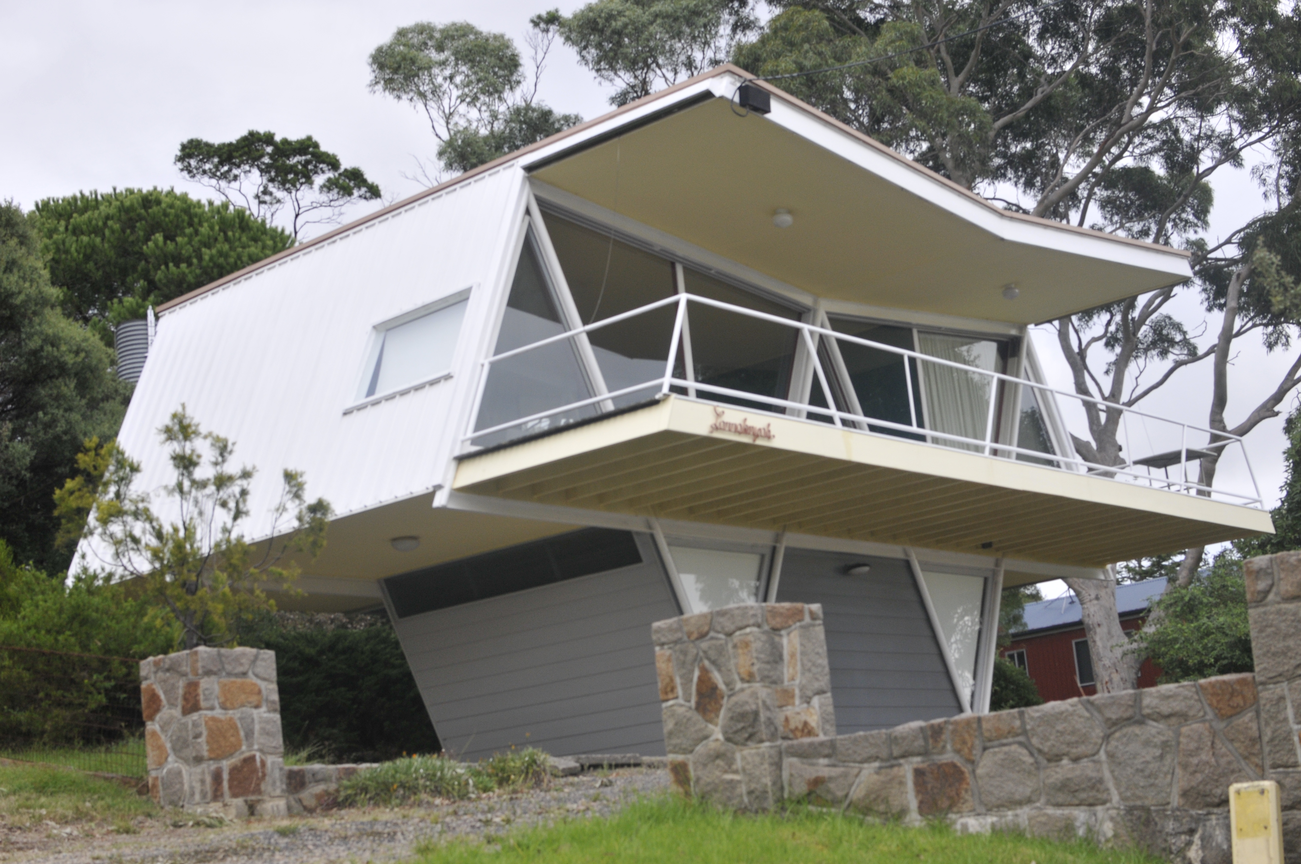 Image of the butterfly house in Dromana